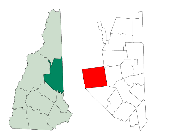 Created from Boundary/Border Outline Files of the Libre Map Project which held a BY-SA creative commons license. Data origionally from 2000 US Census boundary data.